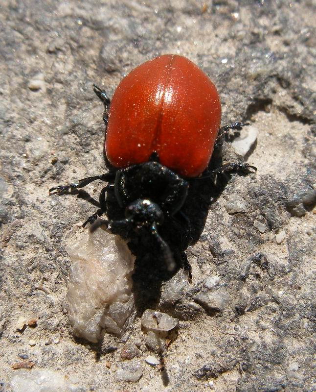 Red poplar leaf beetle.